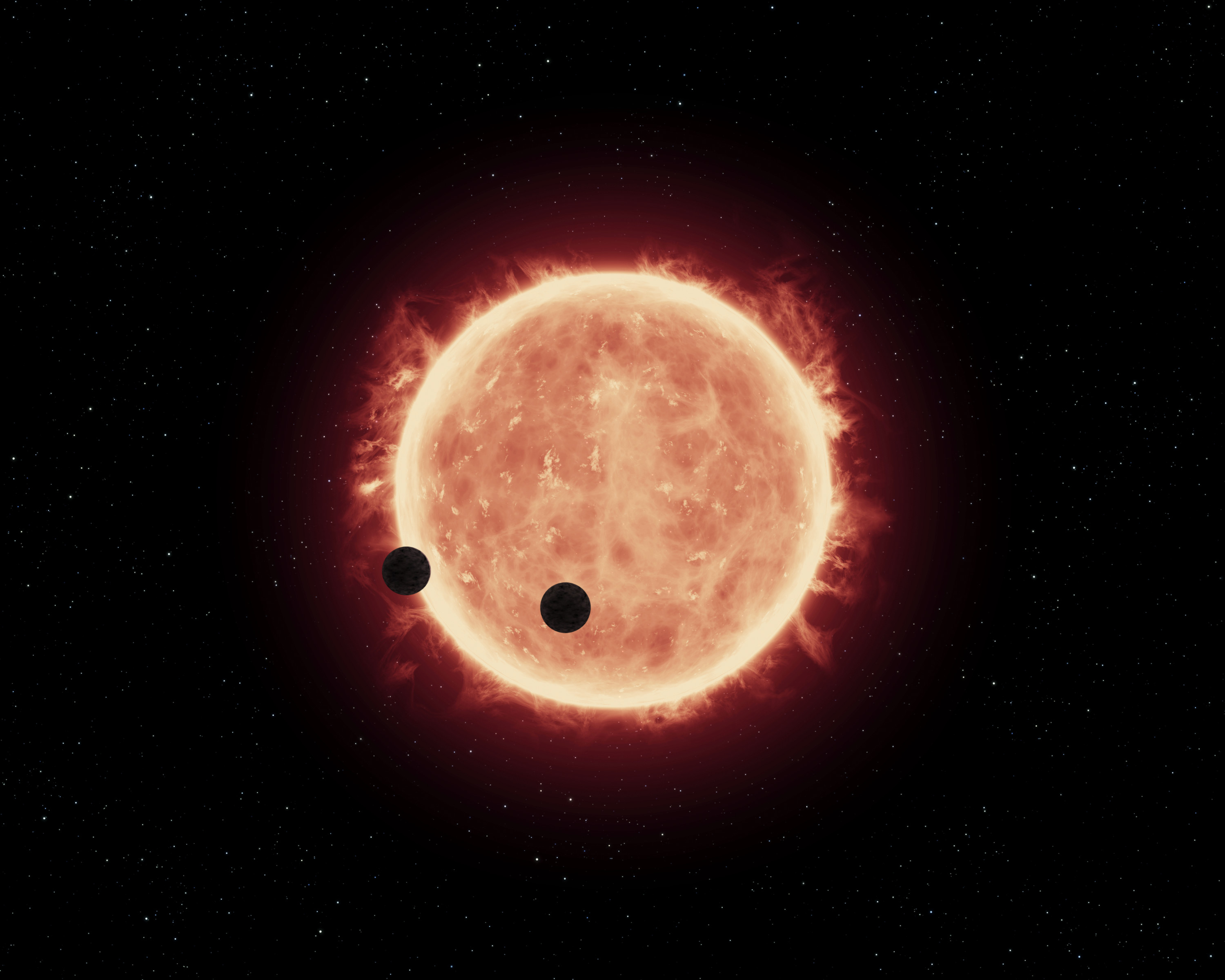 This artist's impression shows two Earth-sized worlds passing in front of their parent red dwarf star, which is much smaller and cooler than our Sun. The star and its orbiting planets TRAPPIST-1b and TRAPPIST-1c reside 40 light-years away. The planets are between 20 and 100 times closer to their star than Earth is to the Sun. Researchers think that at least one of the planets, and possibly both, may be within the star's habitable zone, where moderate temperatures could allow for liquid water on the surface. Hubble looked for evidence of extended atmospheres around both planets and didn't find anything.